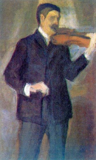 Portrait of Mikhail Matyushin by Yelena Guro, 1910